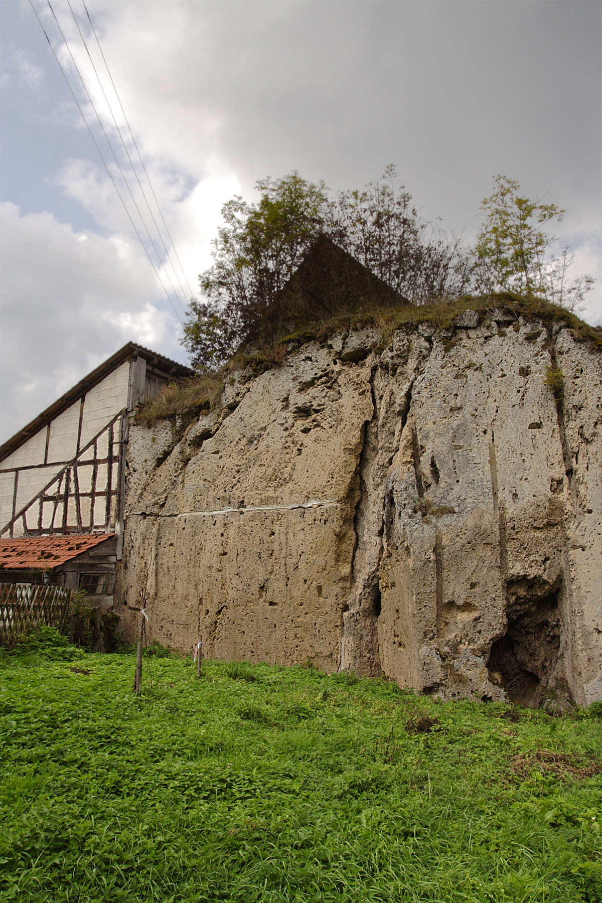 One of 3 rests of huge Travertine sedimentation in the valley of river Bära in “Ensisheim”, West Swabian Alb. The porous sediment, when cropped still humid and easy to saw, runs dry and solidifies to become a fairly tough rock. Here the material developed in interglacial times of the interim of Pliocene/Holocene (12000-6000). Quarrying was quitted for economis reasons. Travertine was well estimated building stone. The porous stones are of light weight, well isolating and well withstanding physical or chemical weathering (except by carbon dioxide water). In modern construction architecture estimates the creativeness for facades (see photo: Image:Rathaus-Hohenstein_Kalktuff_Schwaebische-Alb.jpg).